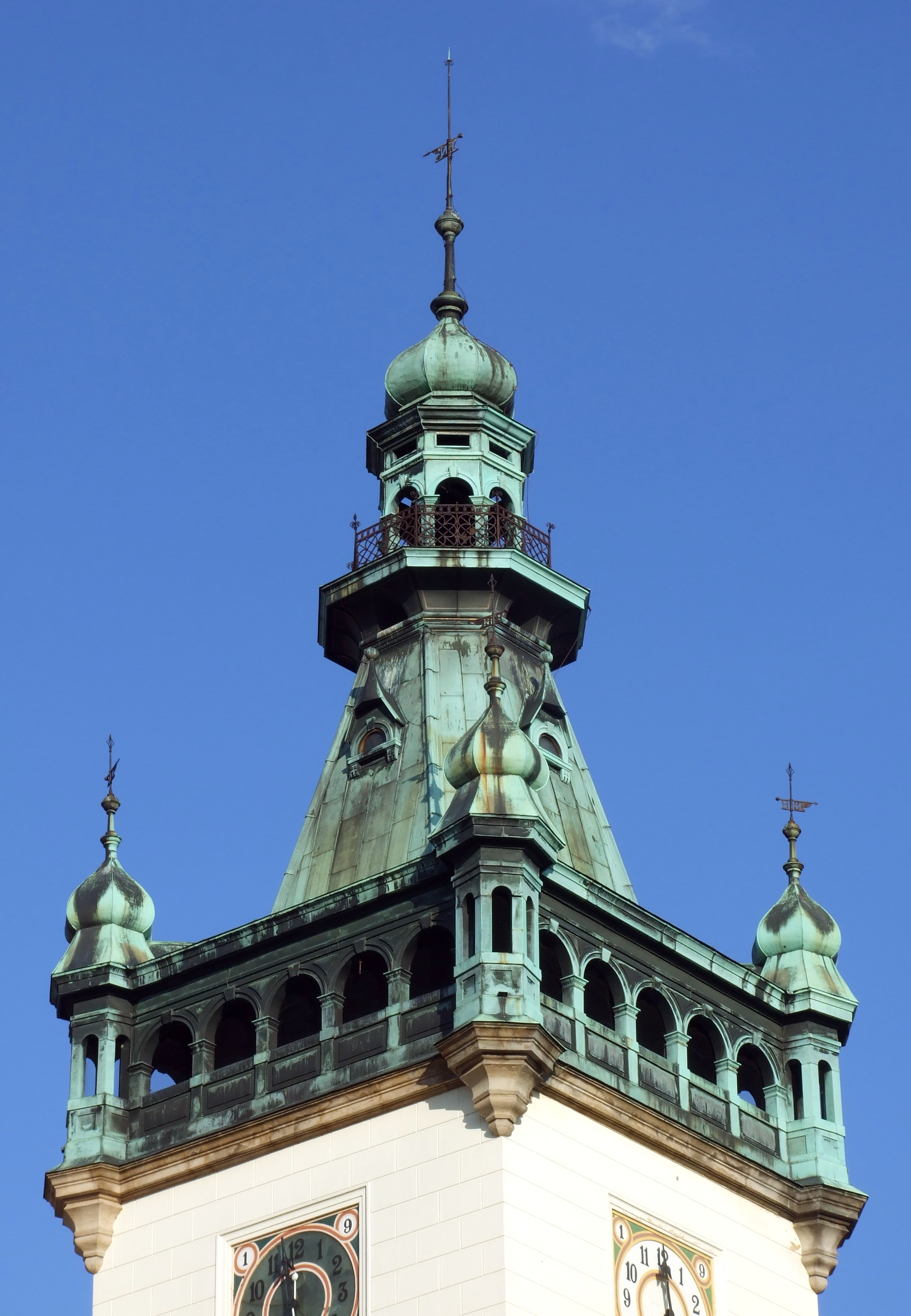 New townhall in Náchod